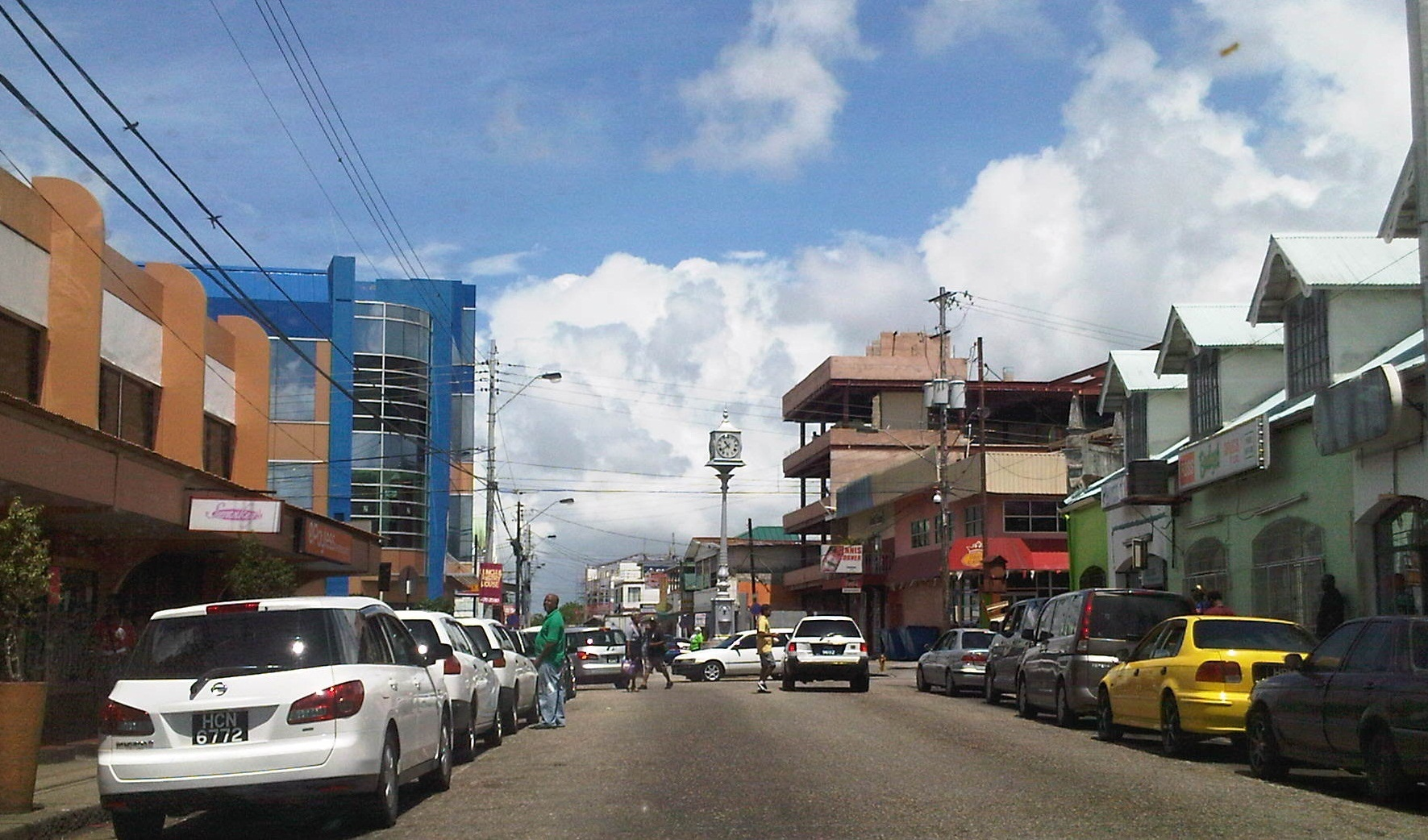 A section of Broadway in the Borough of Arima